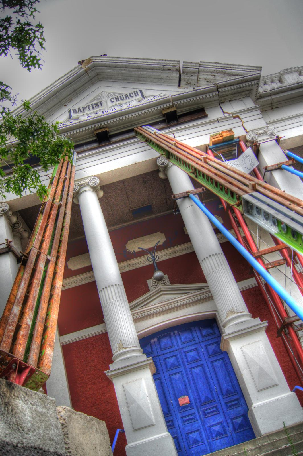 Damaged church building awaiting repair post 7.1 earthquake. Mother nature fears no deity. Subsequently flattened by 6.3 magnitude earthquake on 22 Feb 2011.